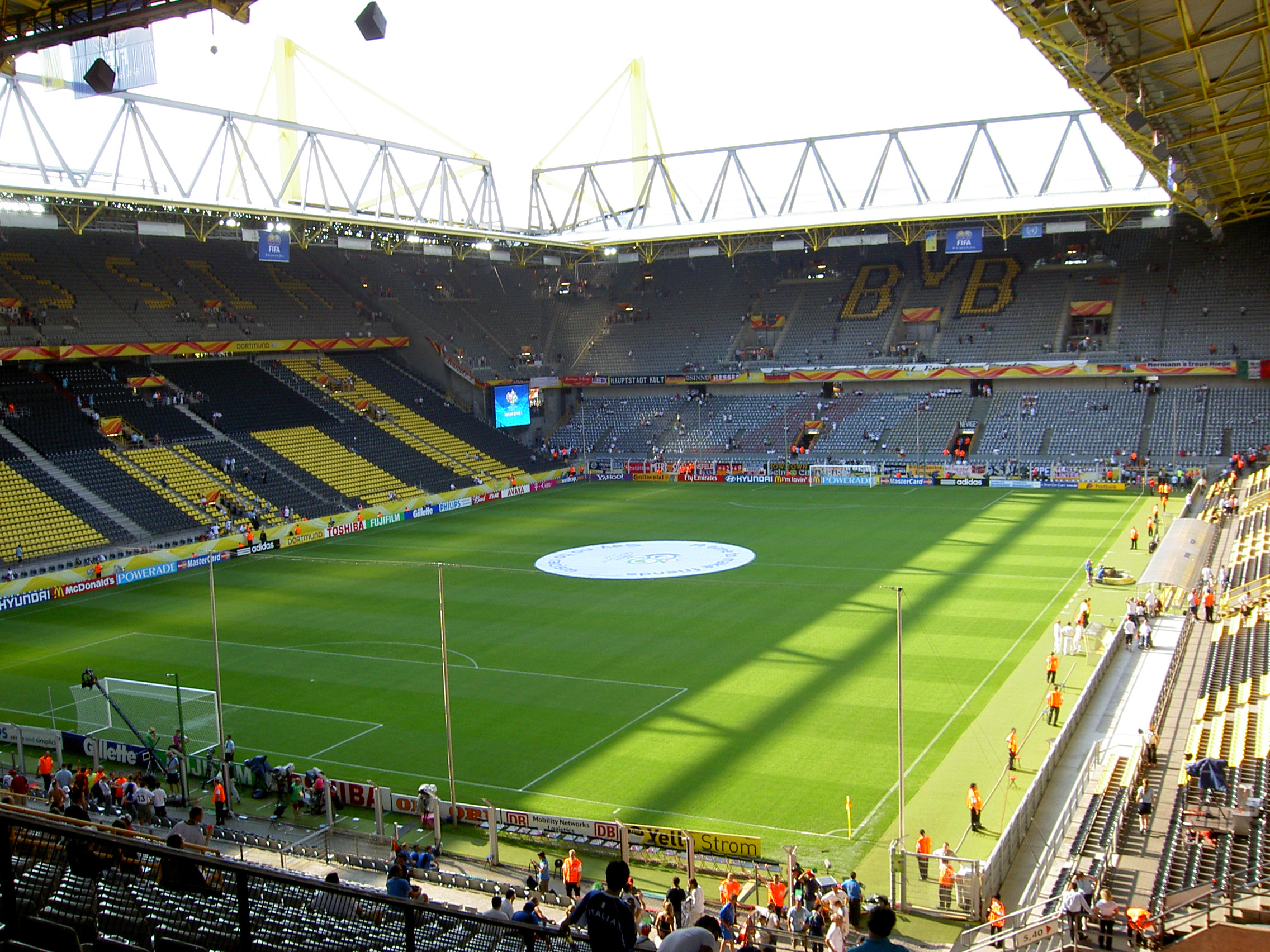 The Signal Iduna Park before the semi-final Italy-Germany